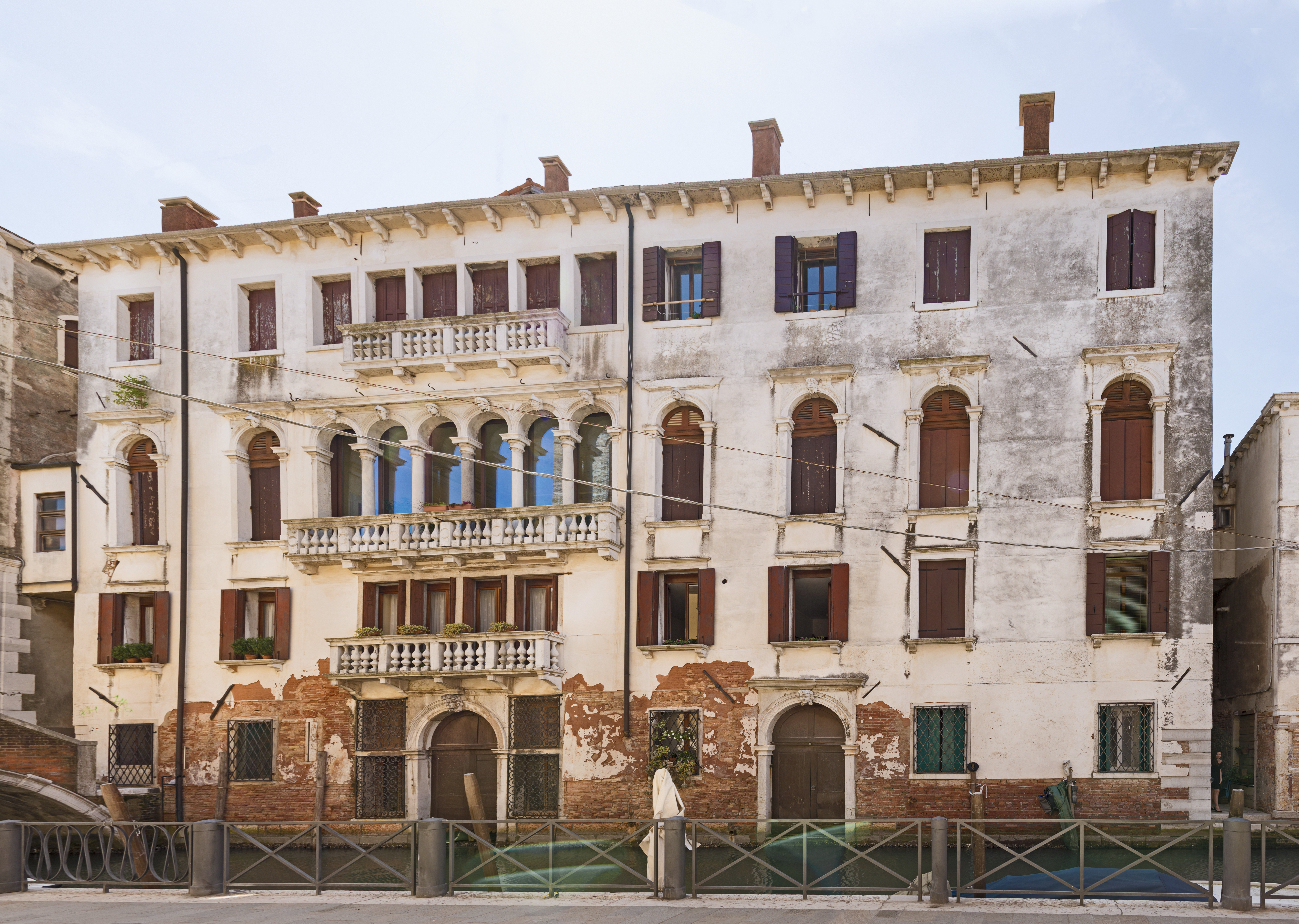 Palace Erizzo in San Martino Venice. Facade on Rio Ca' di Dio.